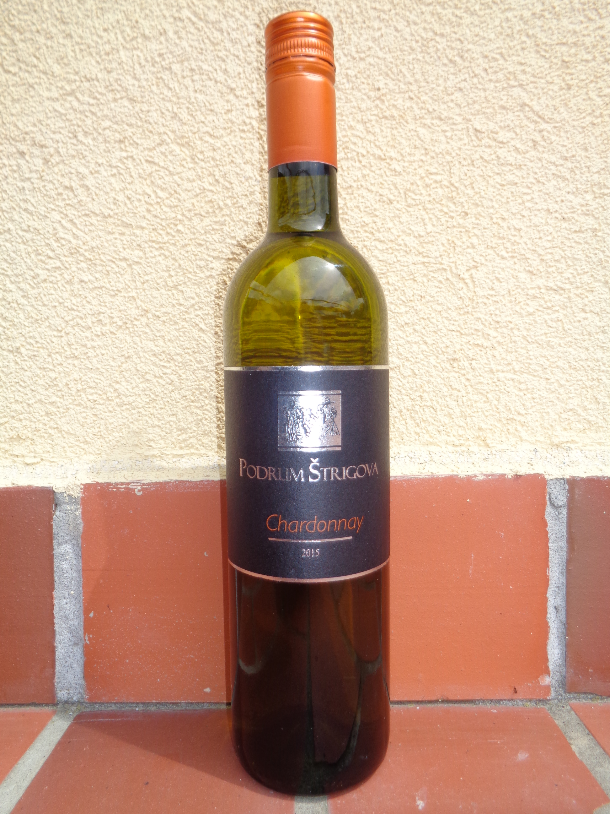 A bottle of Chardonnay wine from Medjimurie wine growing subregion, northern Croatia